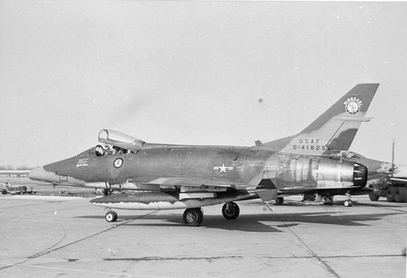 110th Tactical Fighter Squadron F-100C-15-NA 54-1825